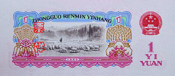 Third series of the renminbi 1yuan(sample)